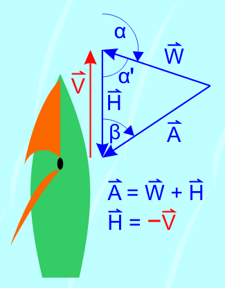 Vector diagram showing the relation between true and apparent wind.